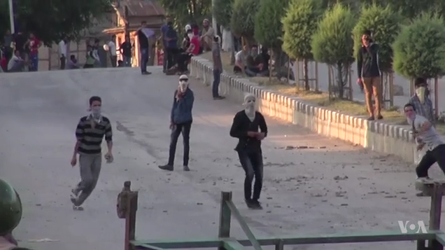 Protesters in Kashmir throwing stones at Indian policeBahasa Melayu: Penunjuk perasaan di Kashmir melontar batu di polis India